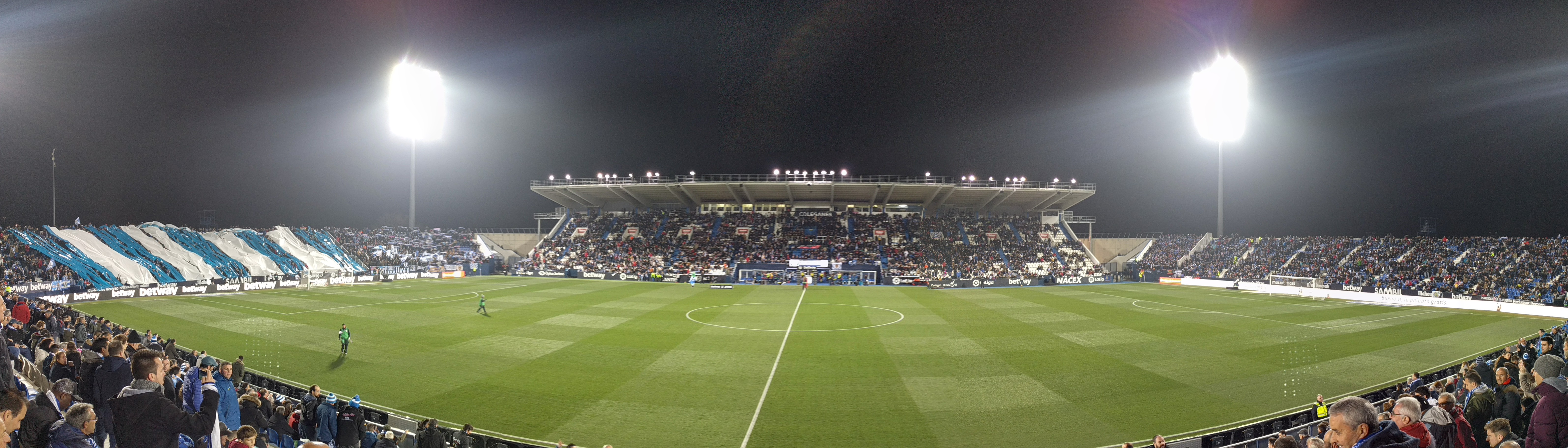 Match between Leganés and Getafe in Estadio Municipal de Butarque, December 2018 (1:1)